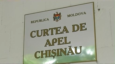 Curtea de Apel Chișinău